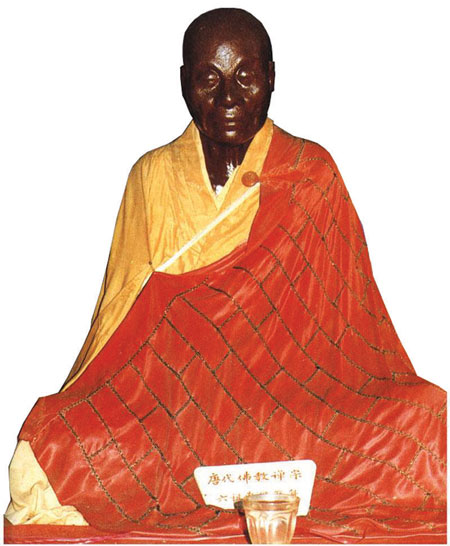 Lục Tổ Huệ Năng